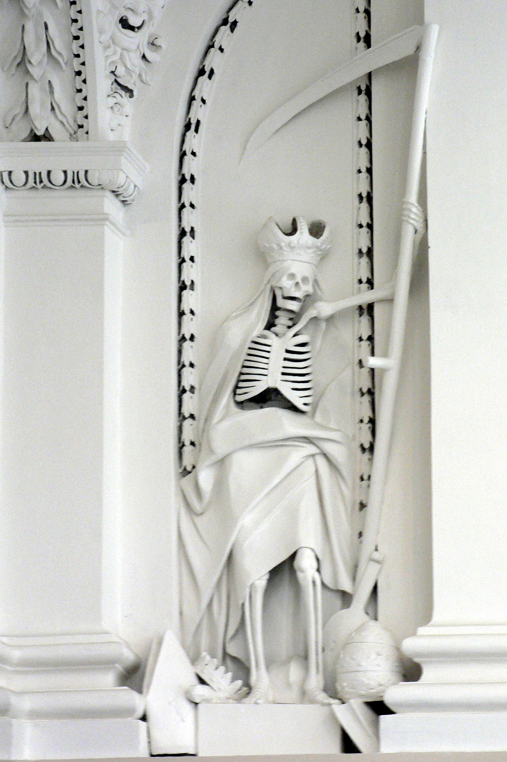 One of the details inside of St. Peter and St. Paul church in Vilnius, Lithuania